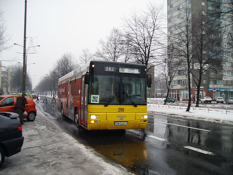 MAN SL223 bus (#296) in Mysłowice, Poland. Year built 2002, Transgór Mysłowice operator.